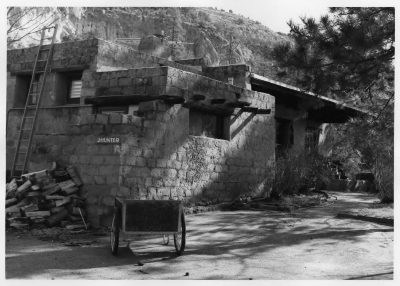 Superintendent's Residence — contributing property of the Bandelier CCC Historic District, in Bandelier National Monument, New Mexico.